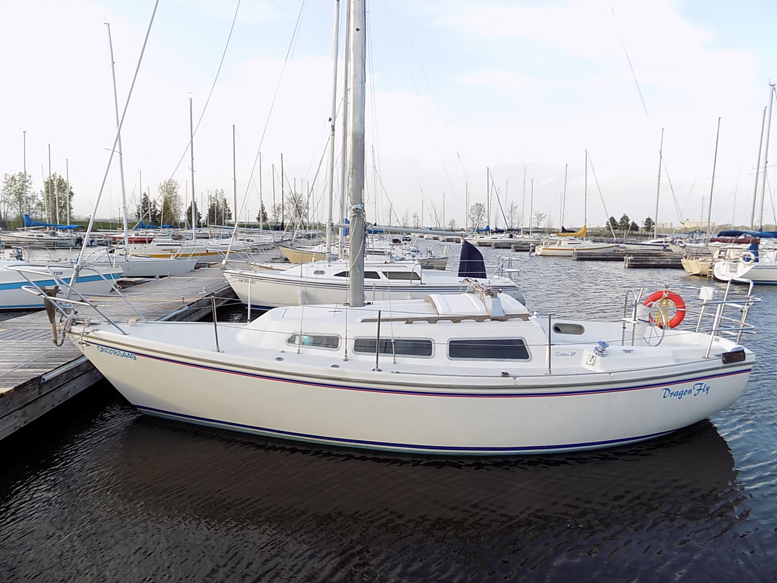 A Catalina 27 sailboat named Dragon Fly.